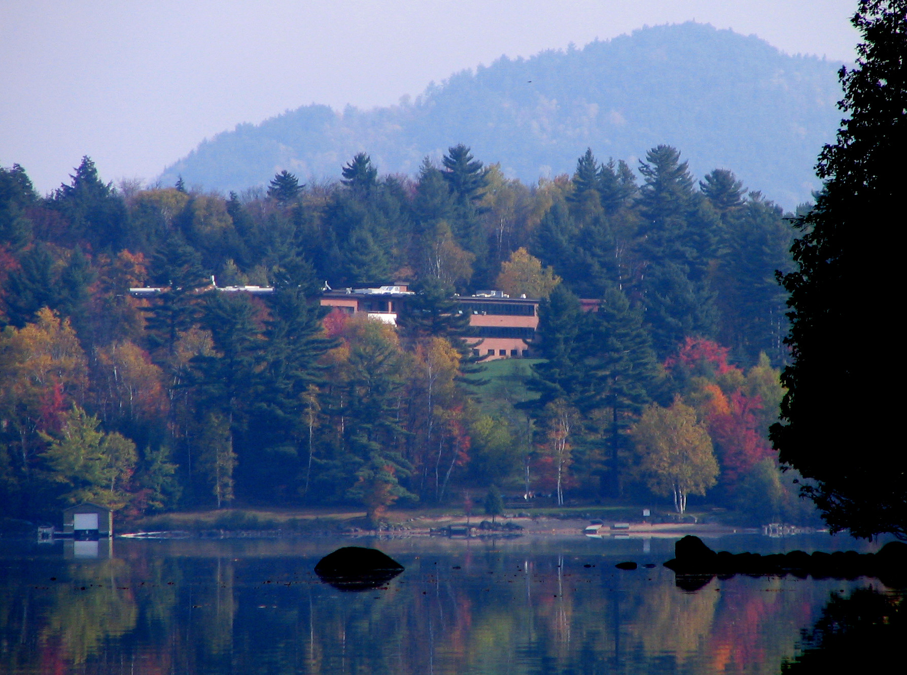 Campus of the Trudeau Institute from Lower Saranac Lake. Taken by User:Mwanner, 18 October, 2007.